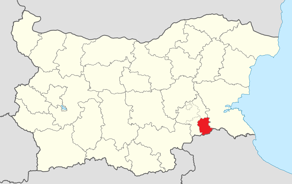 Location map of Bolyarovo Municipality within Bulgaria and Yambol Province